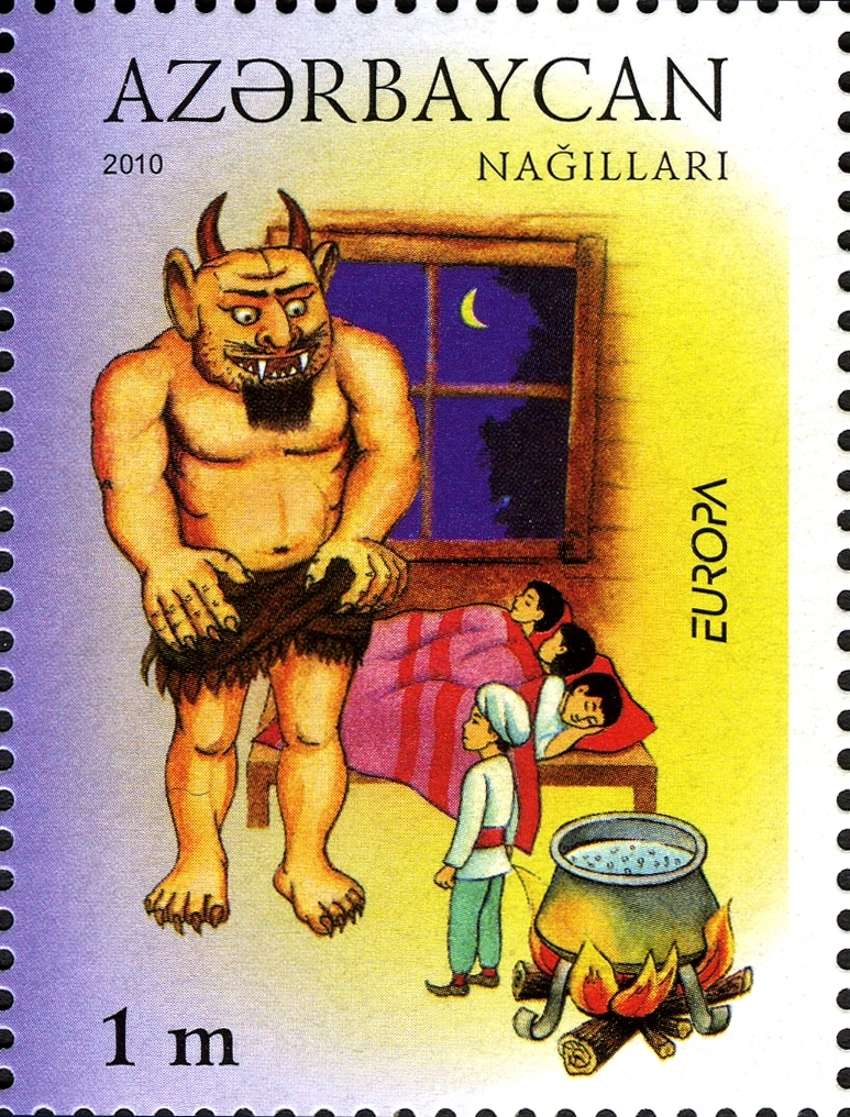 Europa 2010 - Baby Books